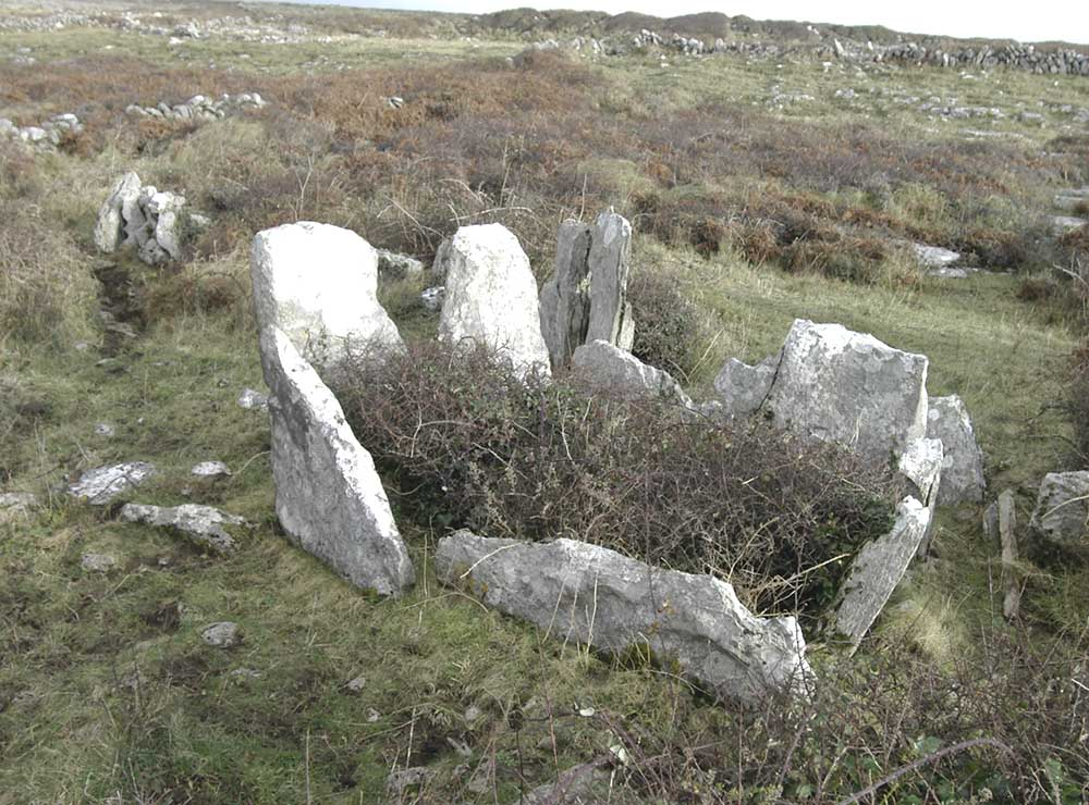 Chamber of the court-cairn at Teergonean, Doolin, County Clare. Danny Burke